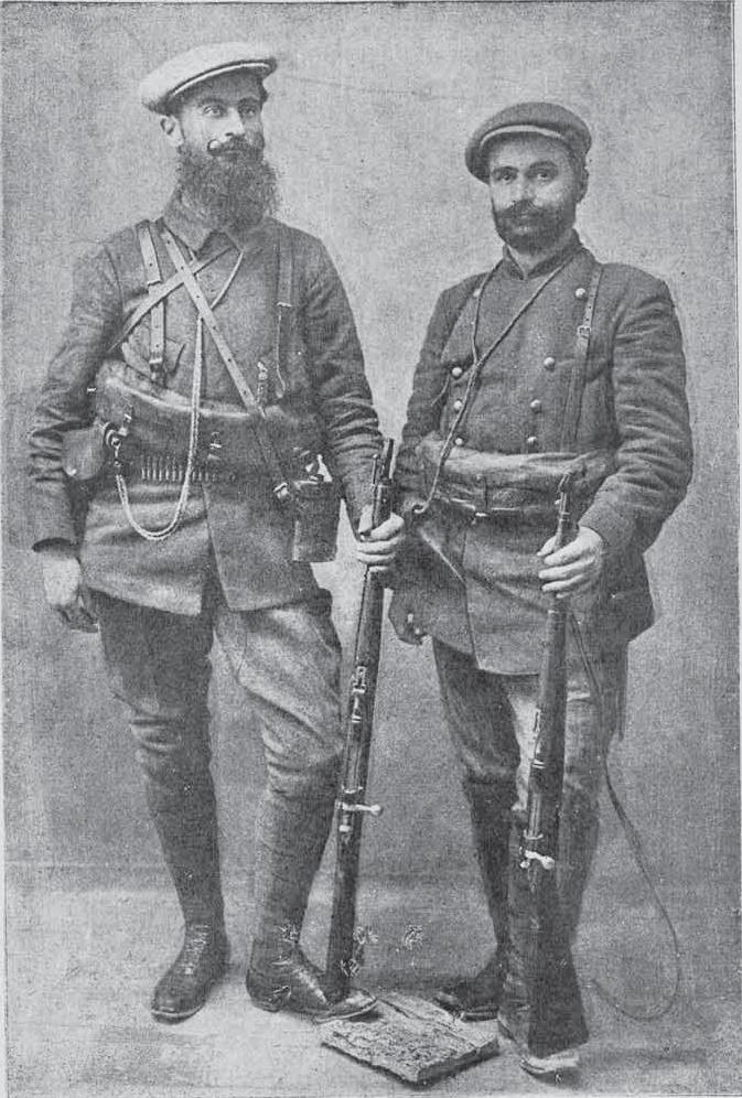 Todor Alexandrov and Georgi Monchev - IMARO activists - in Thessaloniki on 29 October 1912.